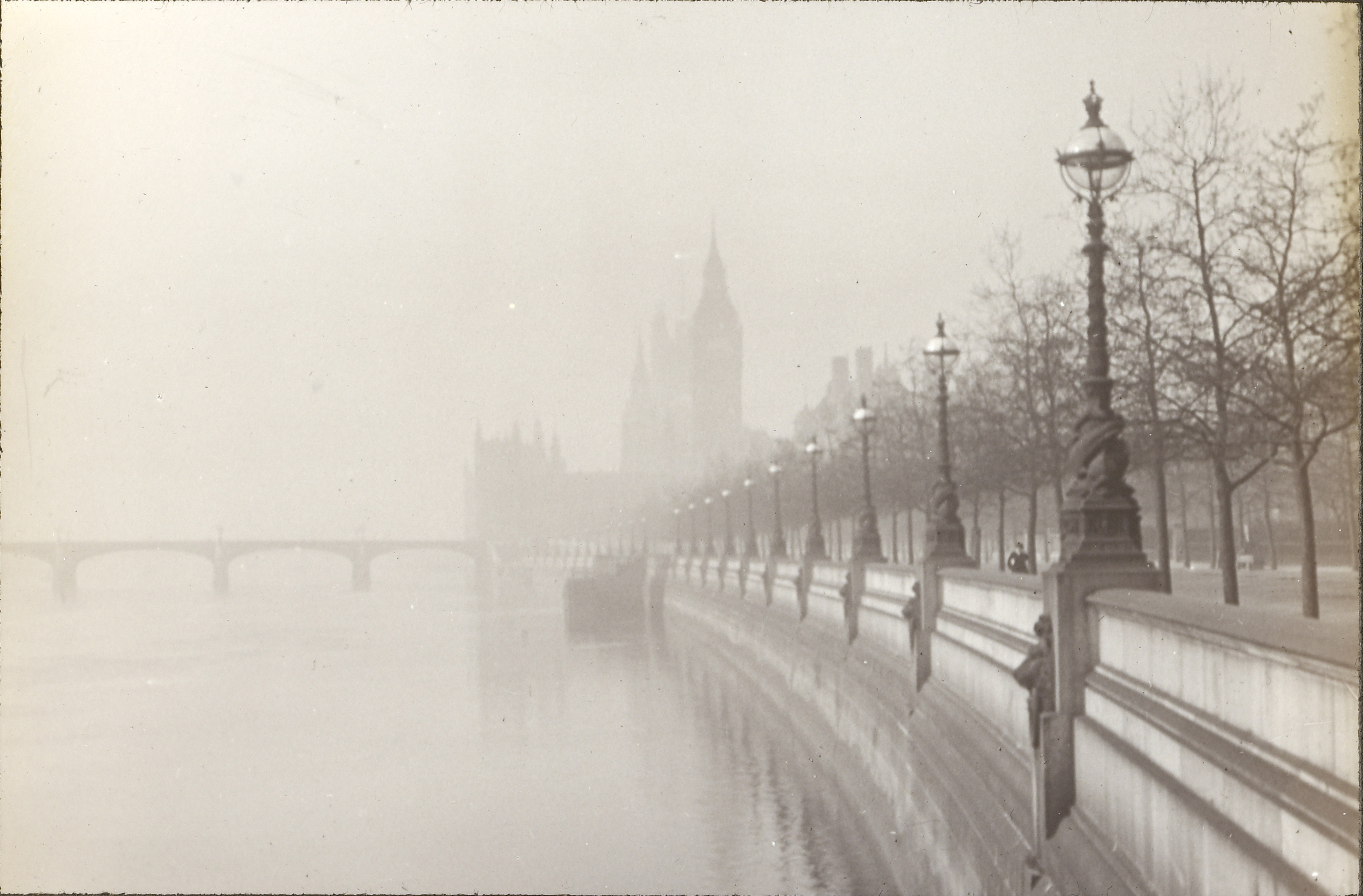 London. Embankment.; Frederick H. Evans (British, 1853 - 1943); 1908; Lantern slide; 4.2 x 6.4 cm (1 11/16 x 2 9/16 in.); 84.XH.1616.17